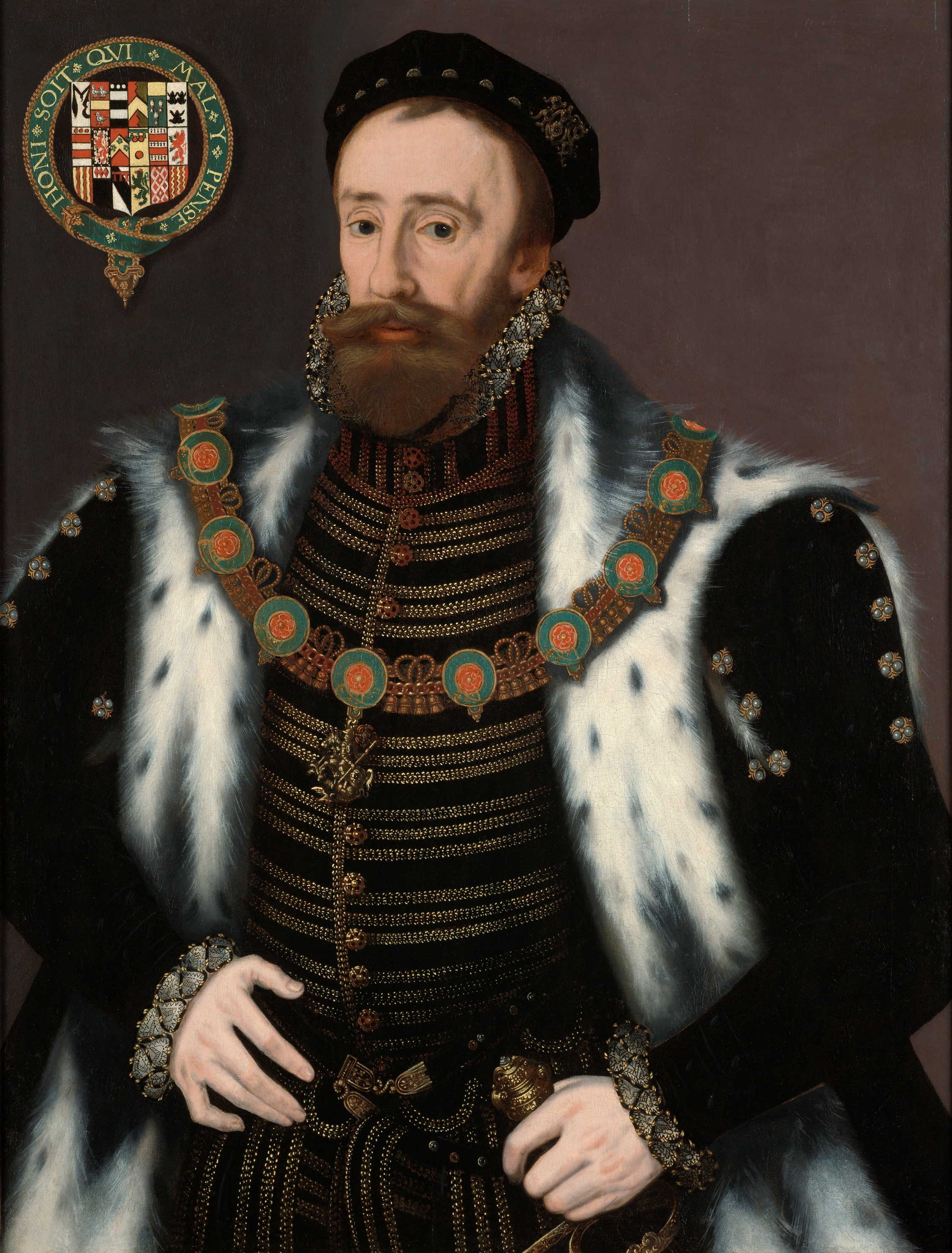 Sir Edward Hastings, 1st Baron Hastings of Loughborough (c. 1521-1571)